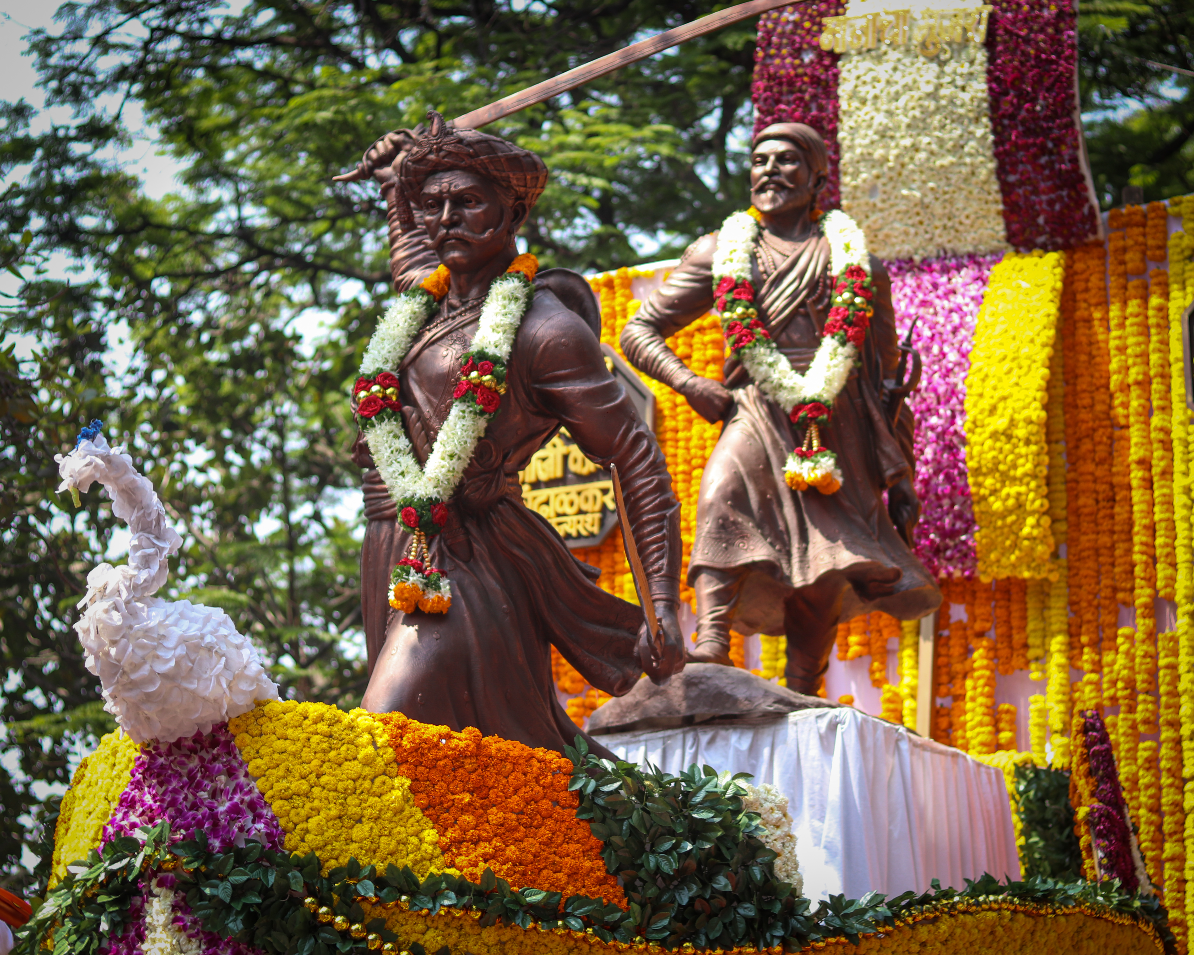 Statue of Sambhaji Kavaji Kondhalkar, one of the bodyguards of Chh. Shivaji Maharaj. He played a critical role in during the Battle of Pratapgad, 1659. This photo has been taken in the country: India